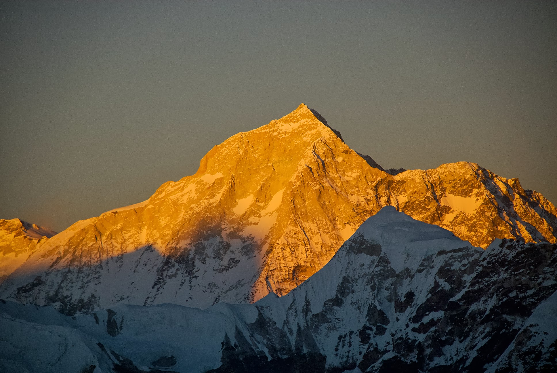 Makalu at sunset. View from the Mera High camp.